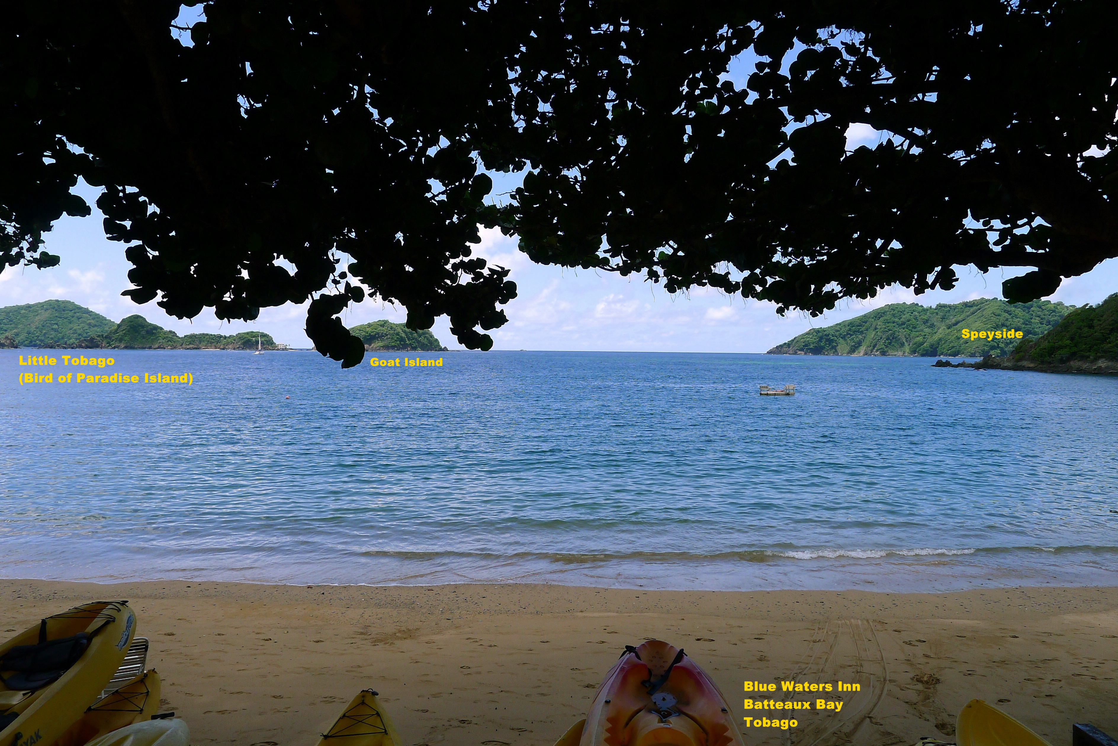 Blue Waters Inn - Resort near the small town of Speyside, Tobago, West Indies. Coral reef off shore. Bird Sanctuary in distance (Little Tobago Island).